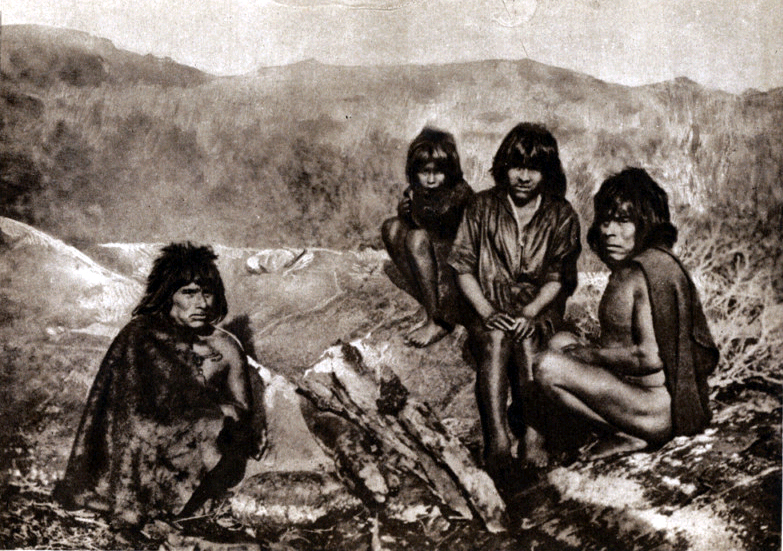 The Yaghan, also called Yagán, Yahgan (the original spelling), Yámana or Yamana, are the indigenous inhabitants of the islands south of Isla Grande de Tierra del Fuego extending their presence into Cape Horn. They were known as Fuegians by the English speaking world, but the term is nowadays avoided as it can refer to any of the indigenous peoples of Tierra del Fuego. They spoke the Yaghan language which is considered to be a language isolate. The Yaghan were nomads who traveled by canoes between islands to collect food. The men hunted sea lions while the women dove to collect shellfish.